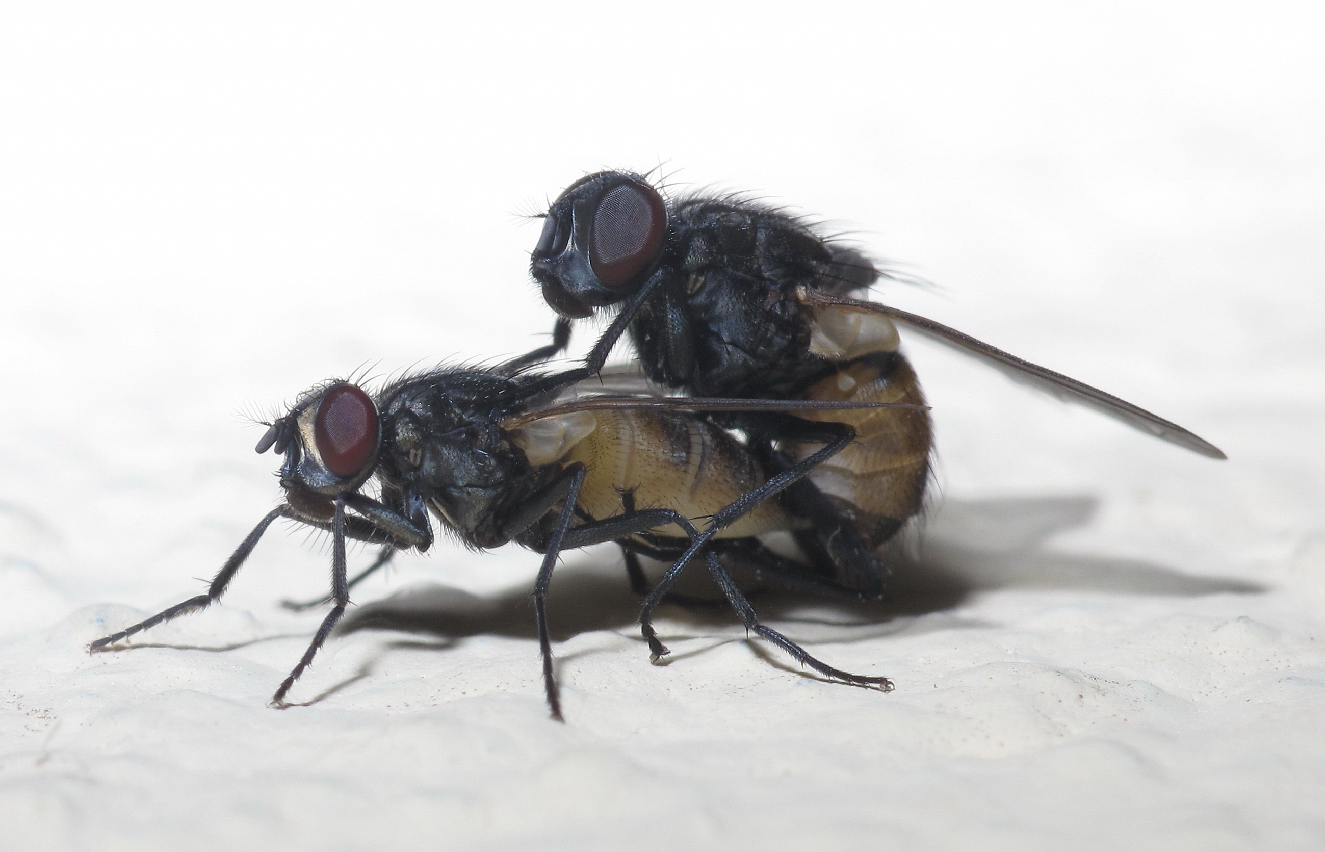 Musca domestica. Bastavales, Brión, Galicia, Spain